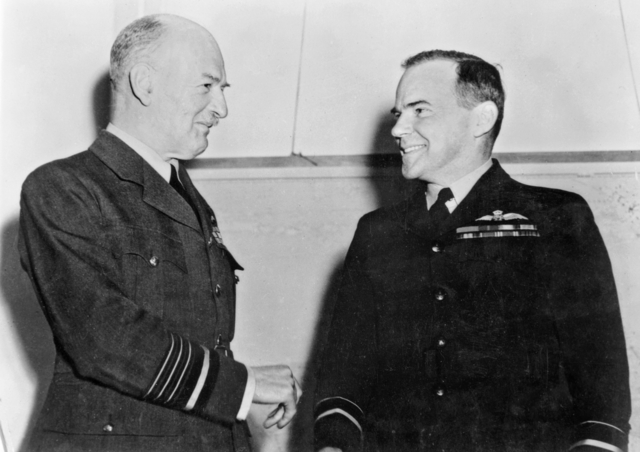 AWM Caption: "1942-05-12. Air Chief Marshal Sir Charles Burnett (left) former Chief of Australian Air Staff, congratulating Air Vice-Marshal William D. Bostock, RAAF, who has been appointed Chief of Staff to Lieut. General George H. Brett".